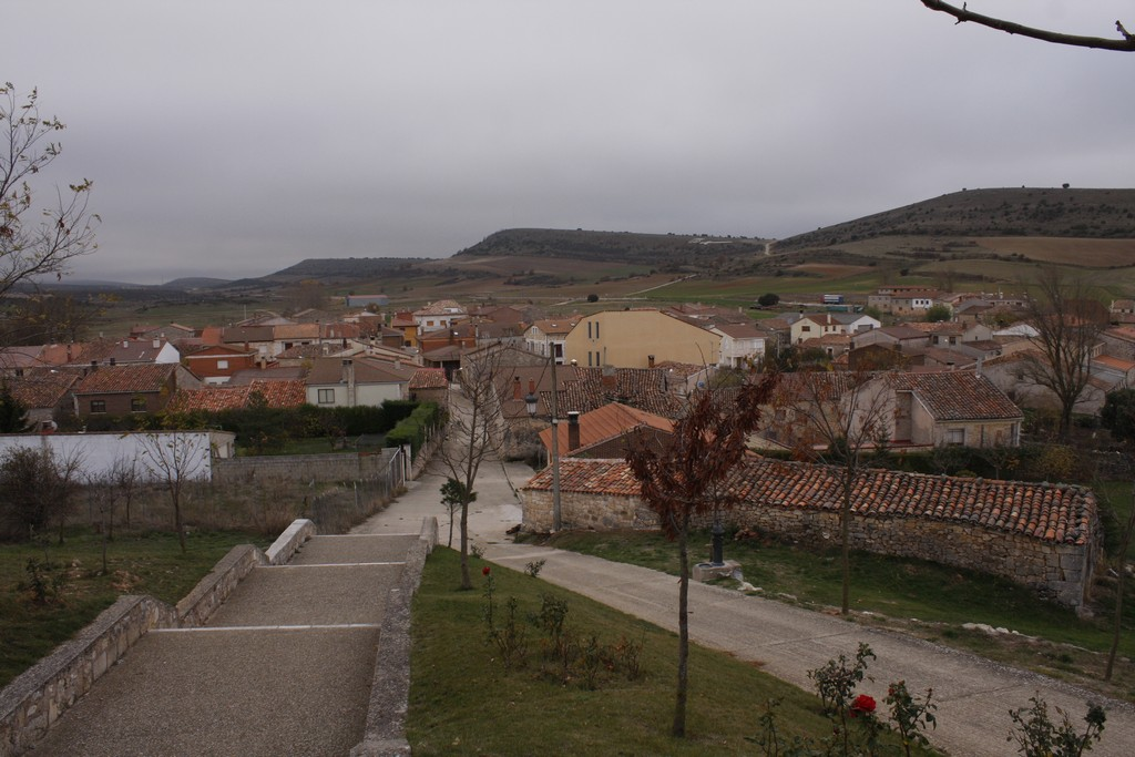 View of Cubillo del Campo